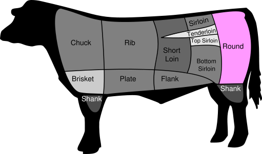 Uploaded for an infobox